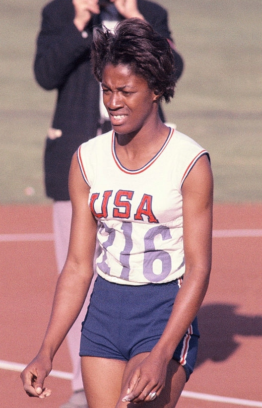 Edith McGuire, 200 m final, 1964 Olympics